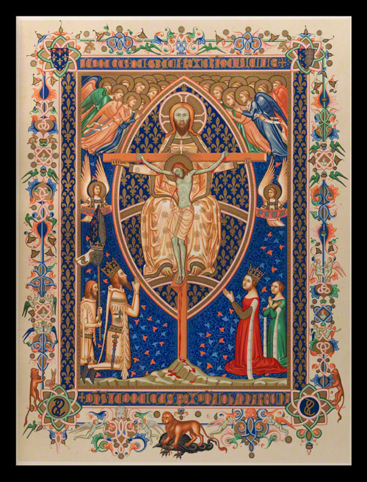 Joan I and Louis I of Naples kneeling